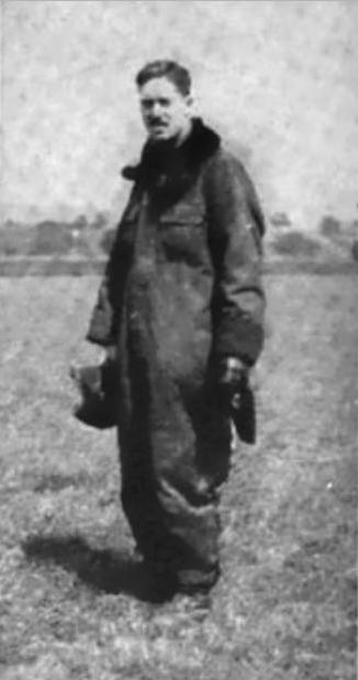 1916 photograph of American WWI aviator Kiffin Rockwell (who flew for France.)